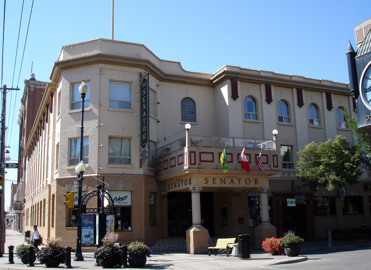 Hotel Senator in downtown Saskatoon, Saskatchewan, Canada. It was built in 1908 and was originally named the Flanagan Hotel after its owner, Jimmy Flanagan. The named was changed to the Hotel Senator in 1940.